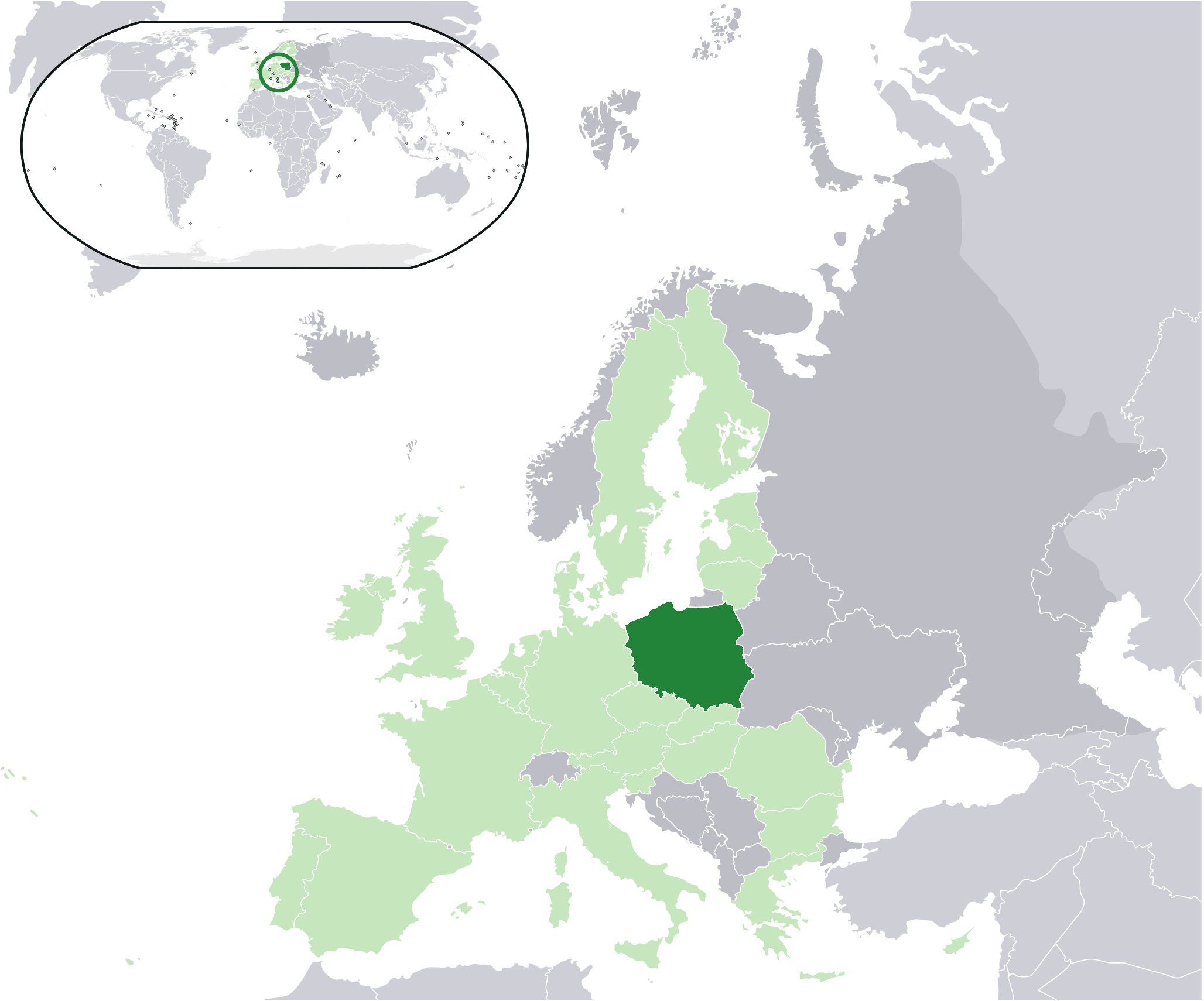 Location map: Poland (dark green) / European Union (light green) / Europe (dark grey); inspired by and consistent with general country locator maps by User:Vardion, et al